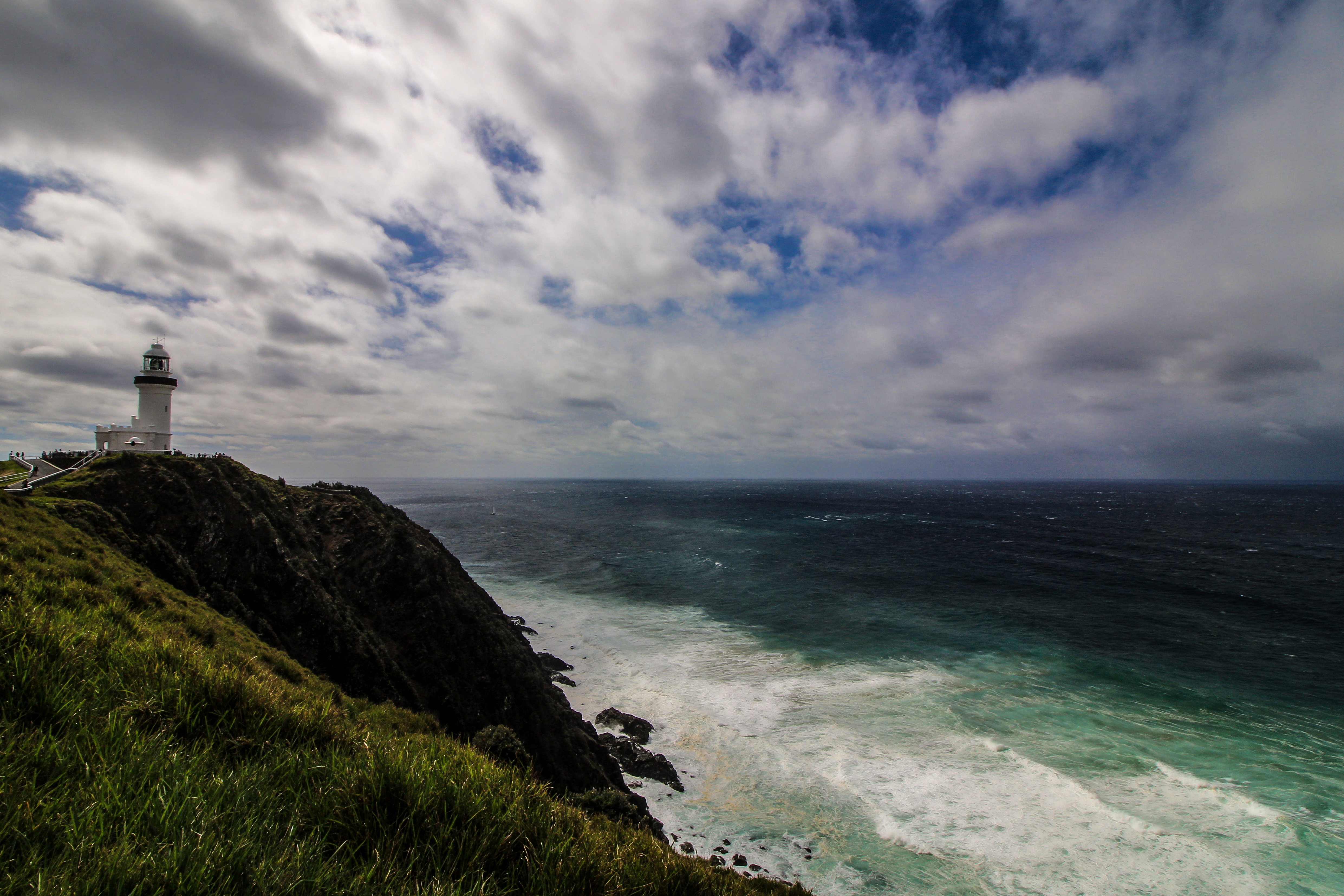 Lighthouse at Byron Bay